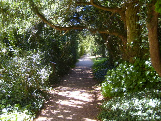 A path in the park of George Sand's house